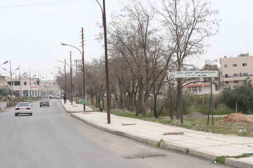 A street in Madaba city